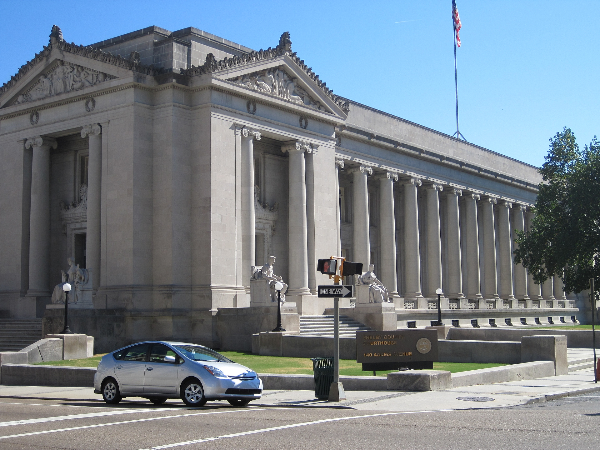 Shelby County Court on Second Street at Adams Avenue in Memphis, Tennessee.